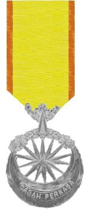 Sri Pahlawan Gagah Perkasa (the Gallant and Valiant Warrior) of Malaysia, instituted 1960.